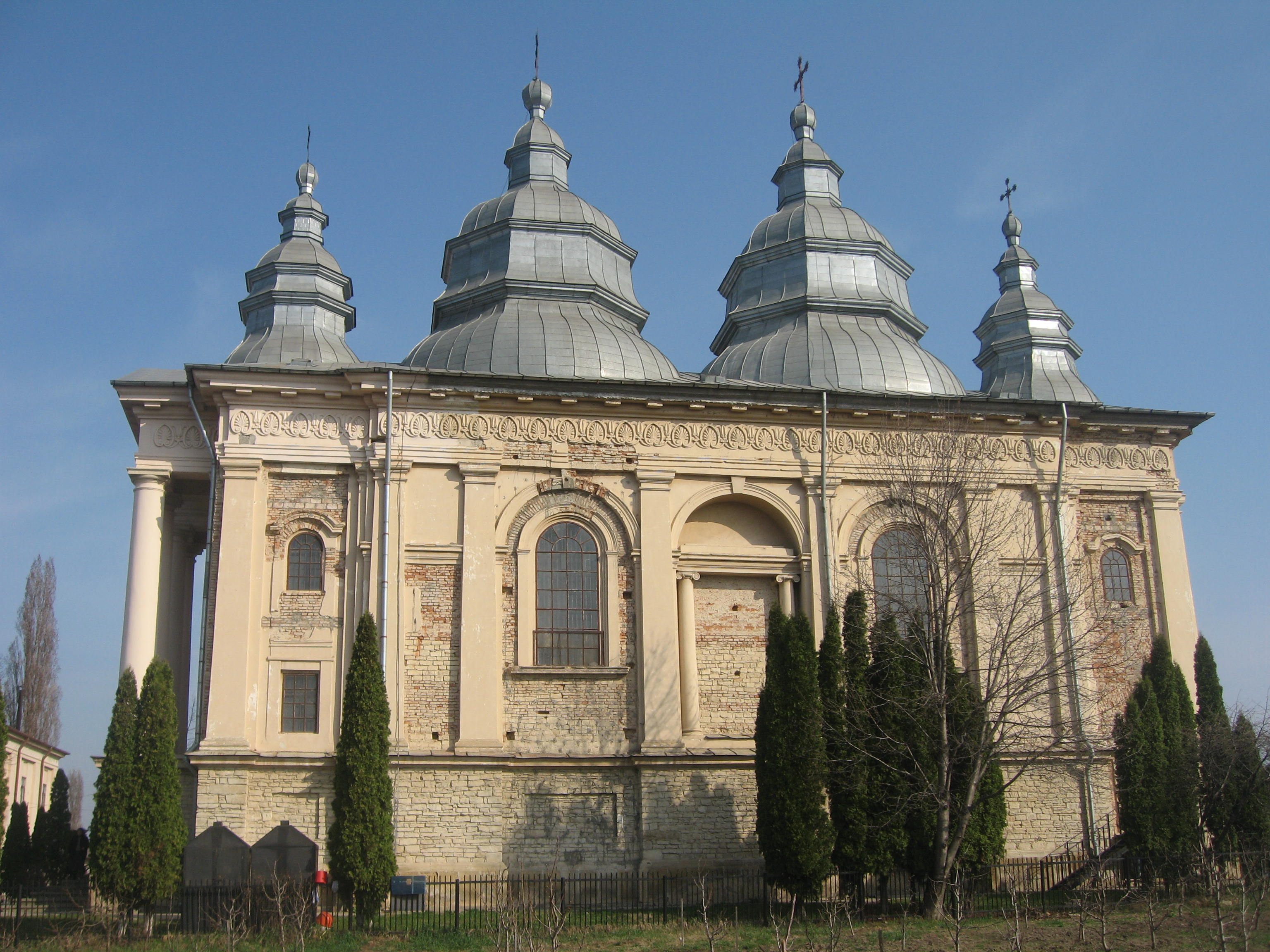 Frumoasa Monastery, Iași, Romania